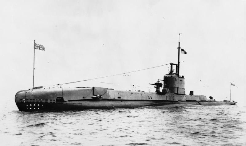 British S class submarine HMSM STARFISH underway.